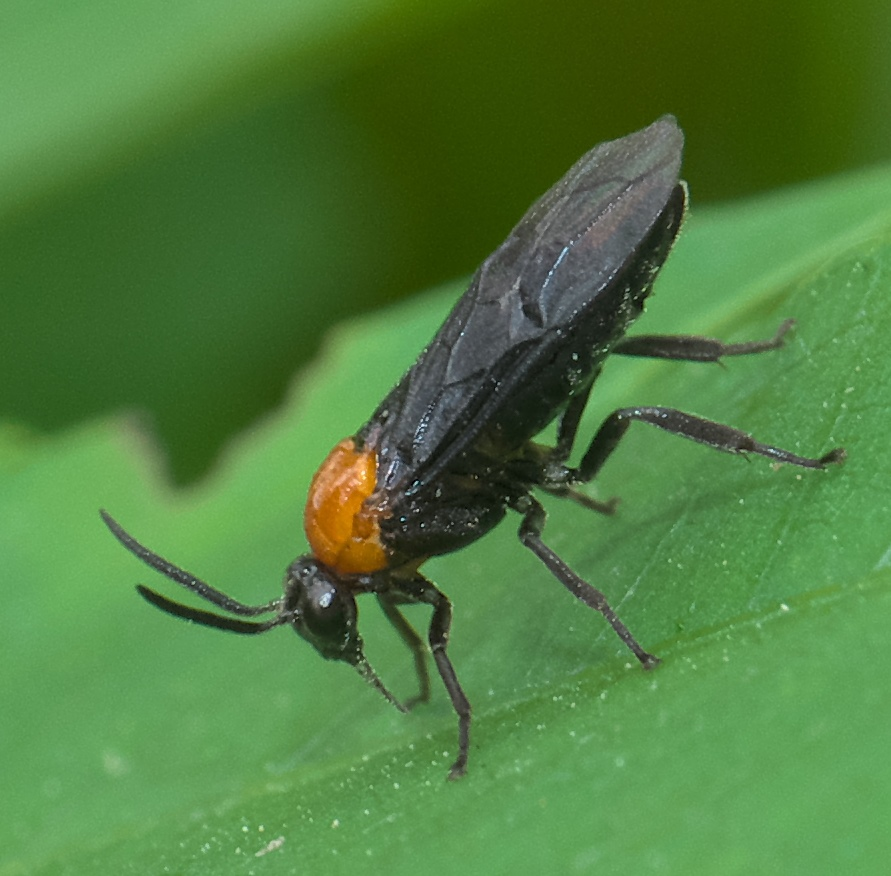 Arge, Family: Argid Sawflies, ID Confidence: 98